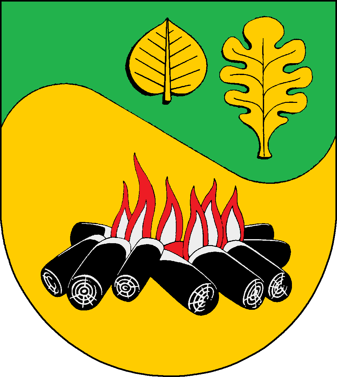 Coat of arms of the municipality Grauel in Schleswig-Holstein, Germany.